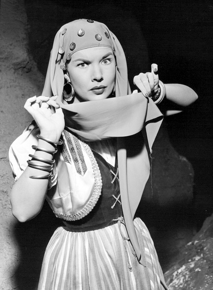 Photo of Gale Storm from the television program My Little Margie. In this episode, Margie learns her father intends to marry a wealthy woman to save his daughter from poverty. She becomes a fortune teller to try to learn what the woman dislikes most to keep her father from marrying her.